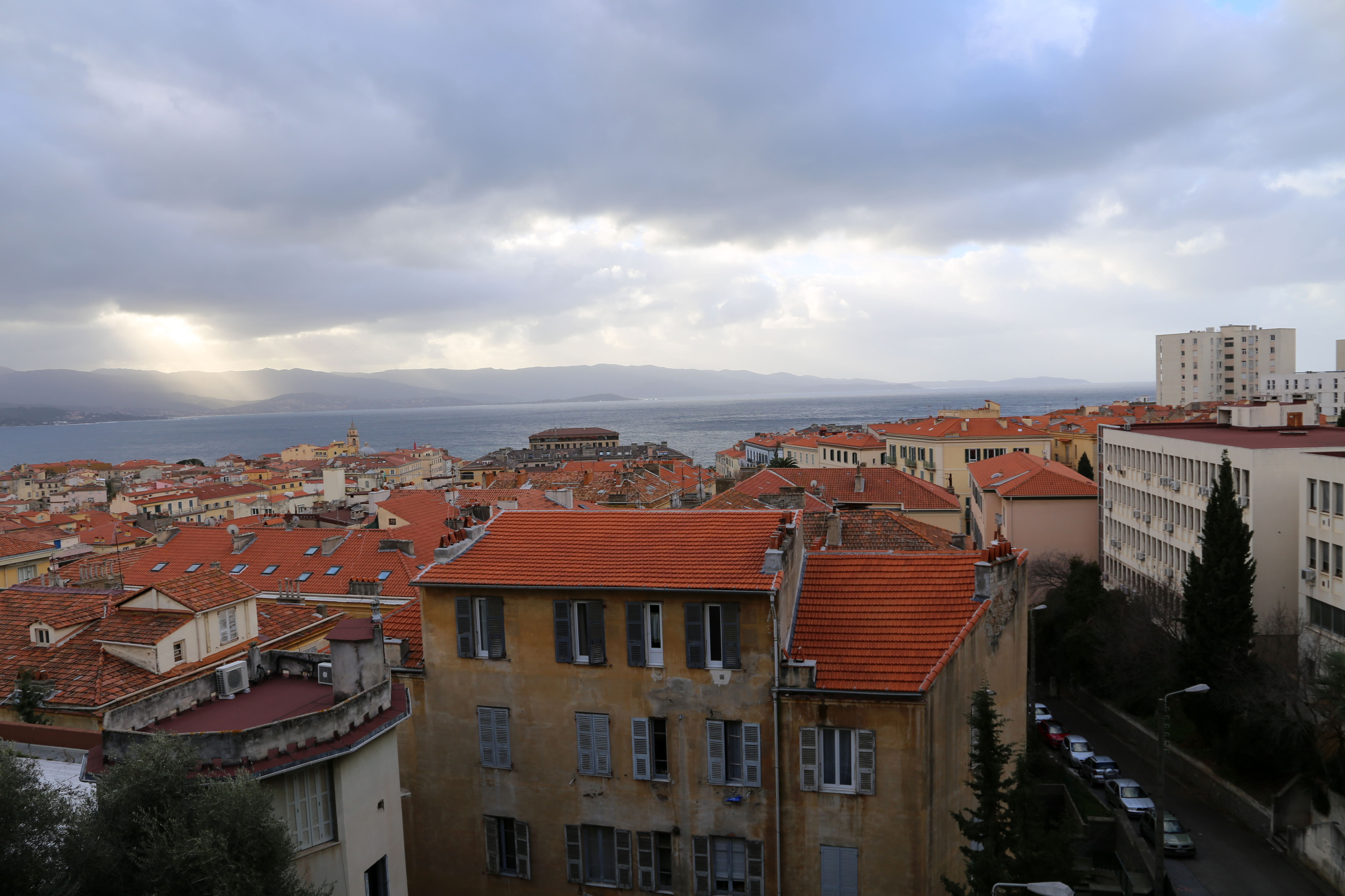 Ajaccio